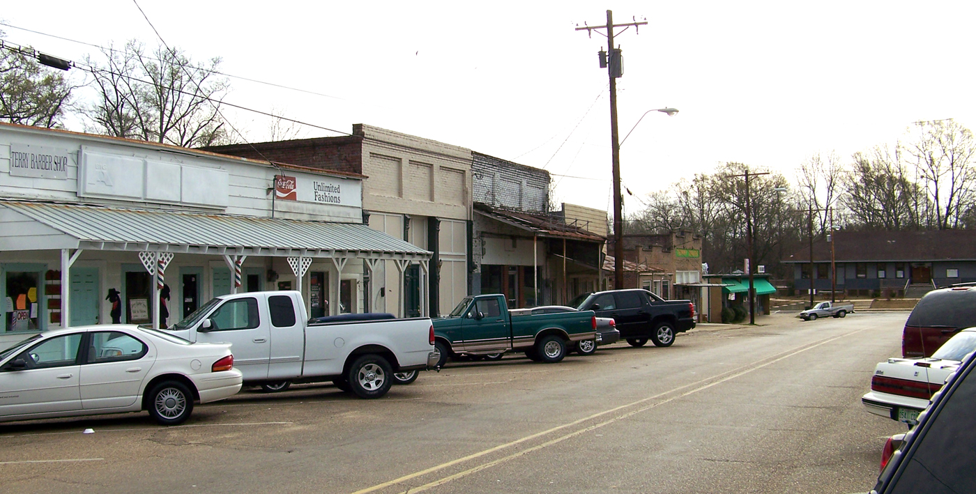 A view of downtown Mississippi.